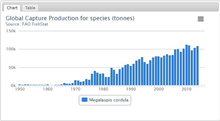 Global catch of torpedo scad